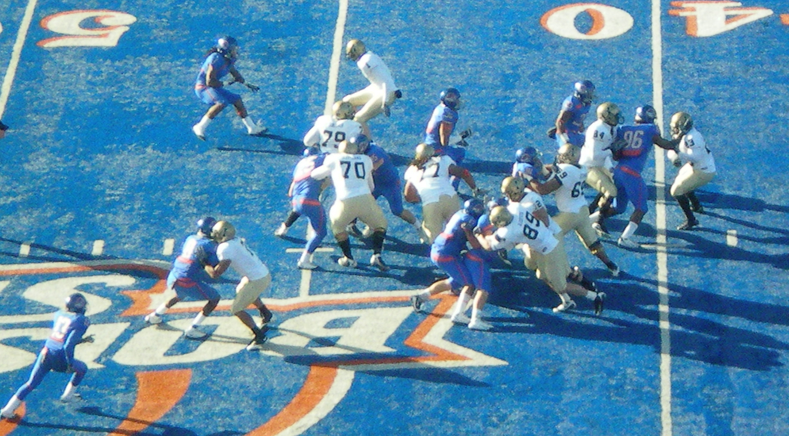 Boise State defense vs Idaho Vandals offense during their game in Boise, ID on November 14, 2009